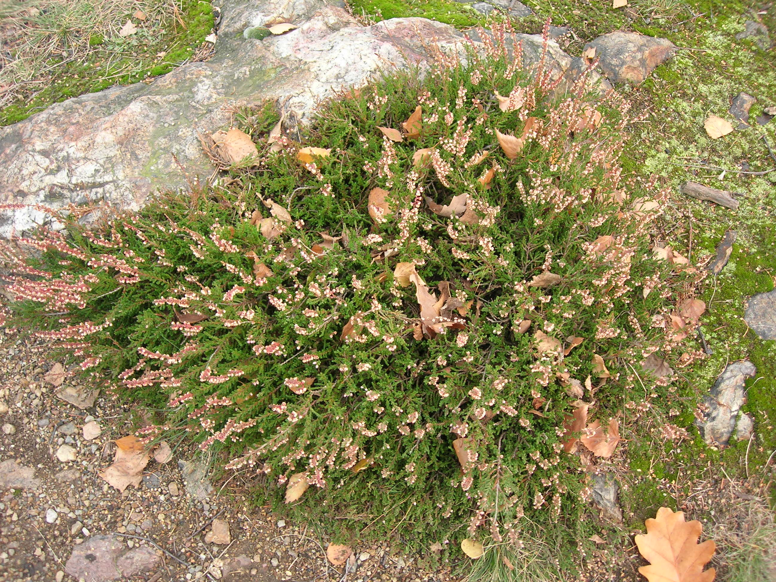 Nature reserve Údolí Únětického potoka near Suchdol, part of Prague, Czech Republic